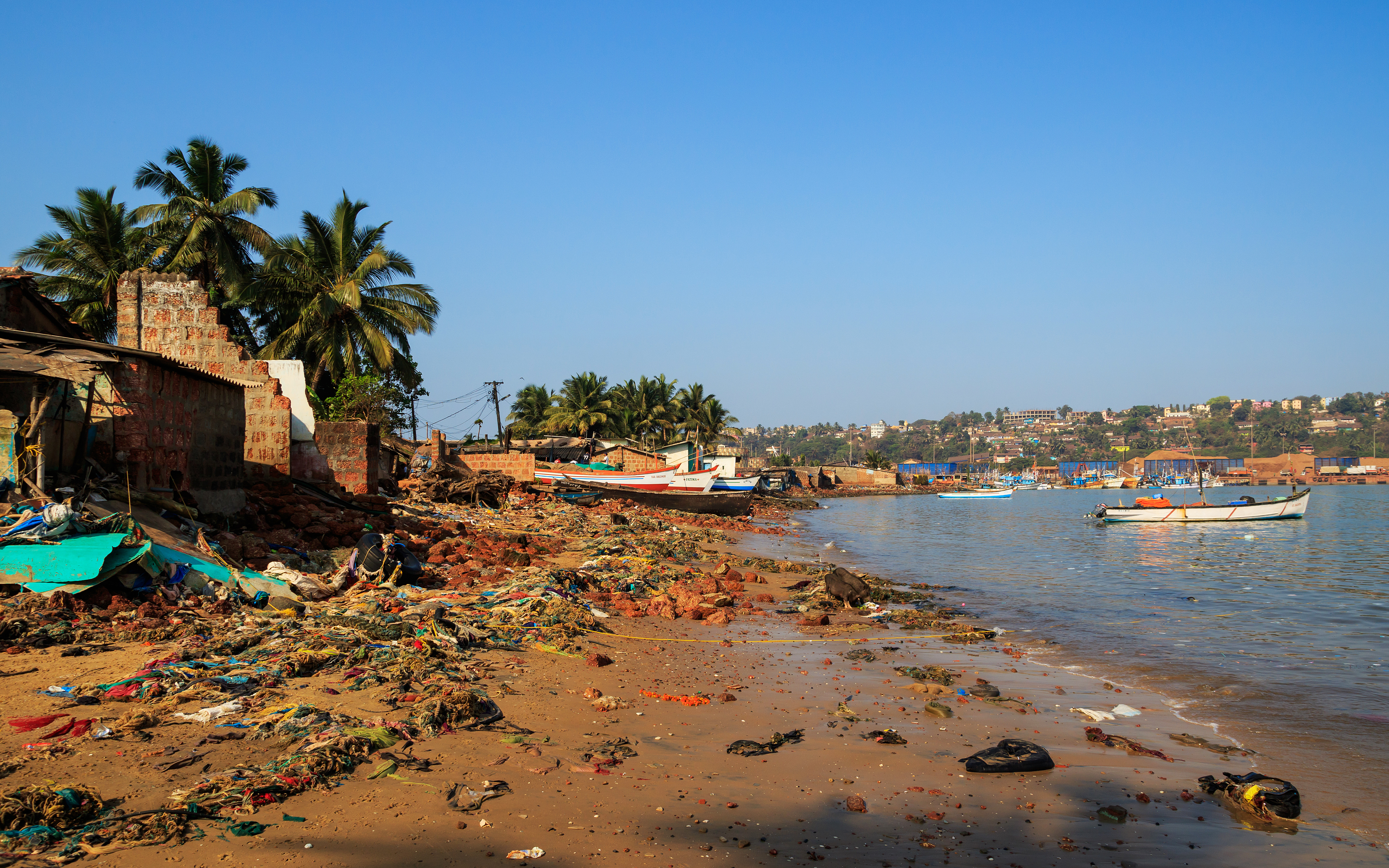 A beach in Vaddem / Vasco da Gama (Goa), India